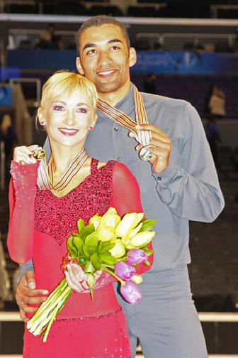 2009 World Figure Skating Championships - Aliona Savchenko and Robin Szolkowy